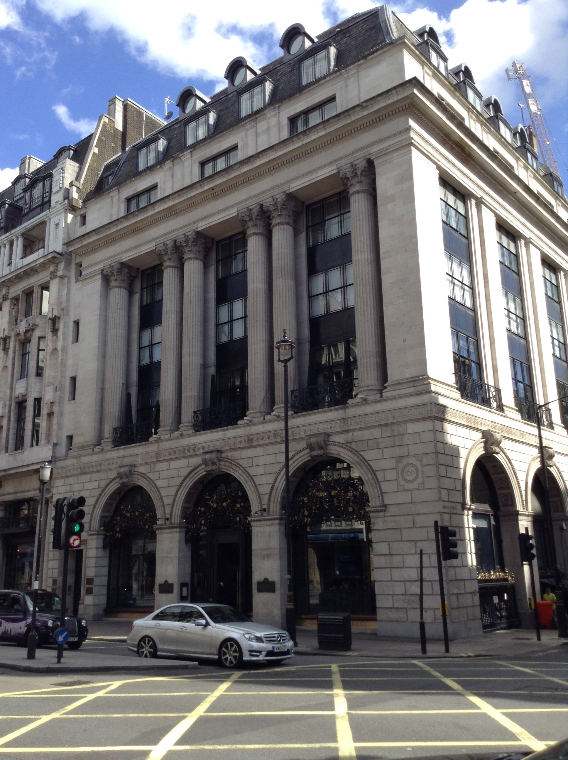 1–3 Arlington Street and 157–160 Piccadilly